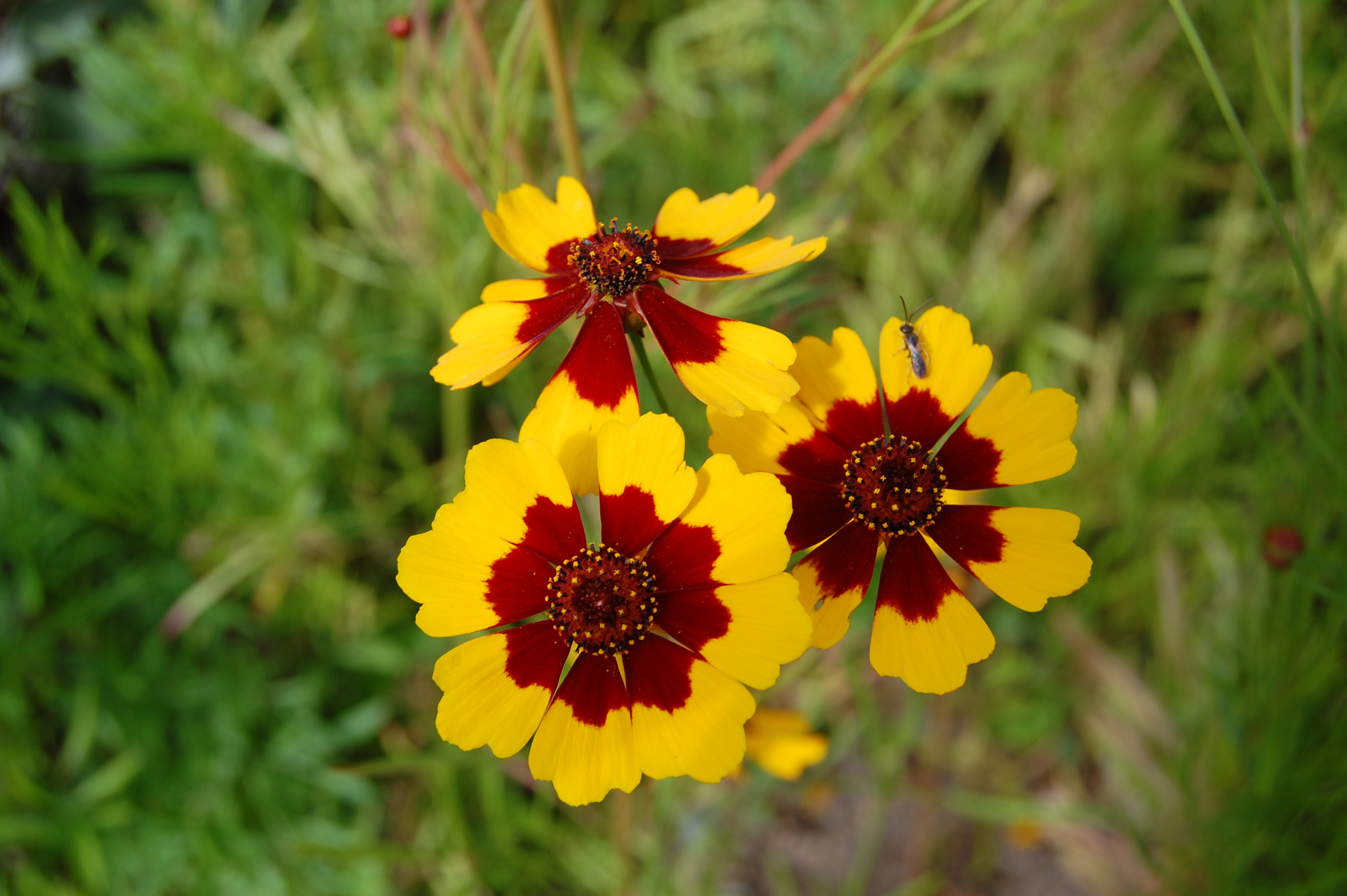 Coreopsis tinctoria